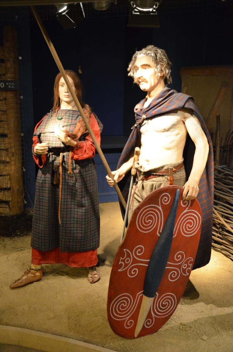 Rekonstruktionsversuch kelticher Trachten